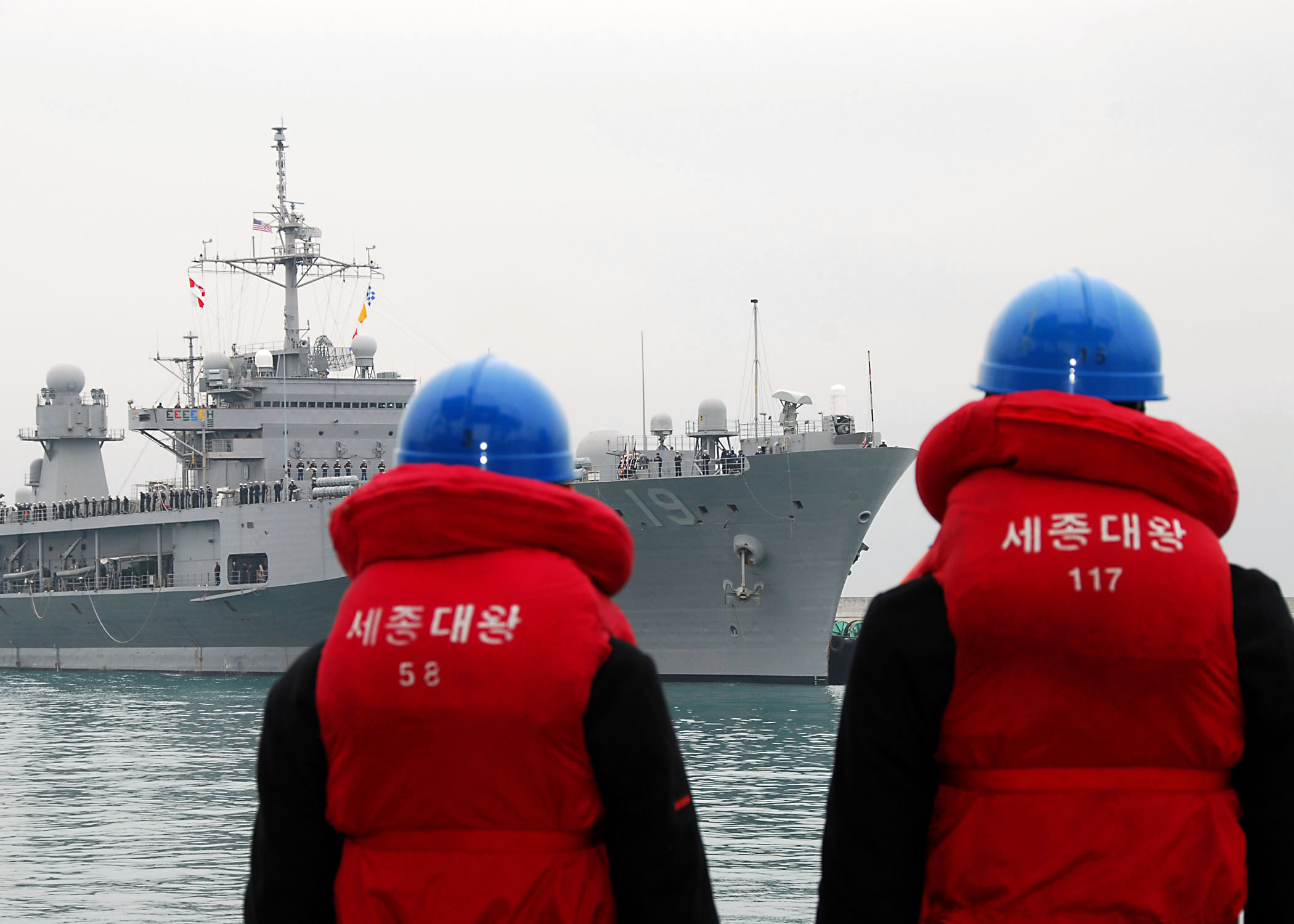 BUSAN, Republic of Korea (March 5, 2010) Two Korean sailors watch the U.S. 7th Fleet command ship USS Blue Ridge (LCC 19) as it arrives in Busan, Republic of Korea. Blue Ridge and U.S. 7th Fleet staff arrived in Busan for Exercise Key Resolve/Foal Eagle 2010. (U.S. Navy photo by Mass Communication Specialist 1st Class Bobbie G. Attaway/Released)